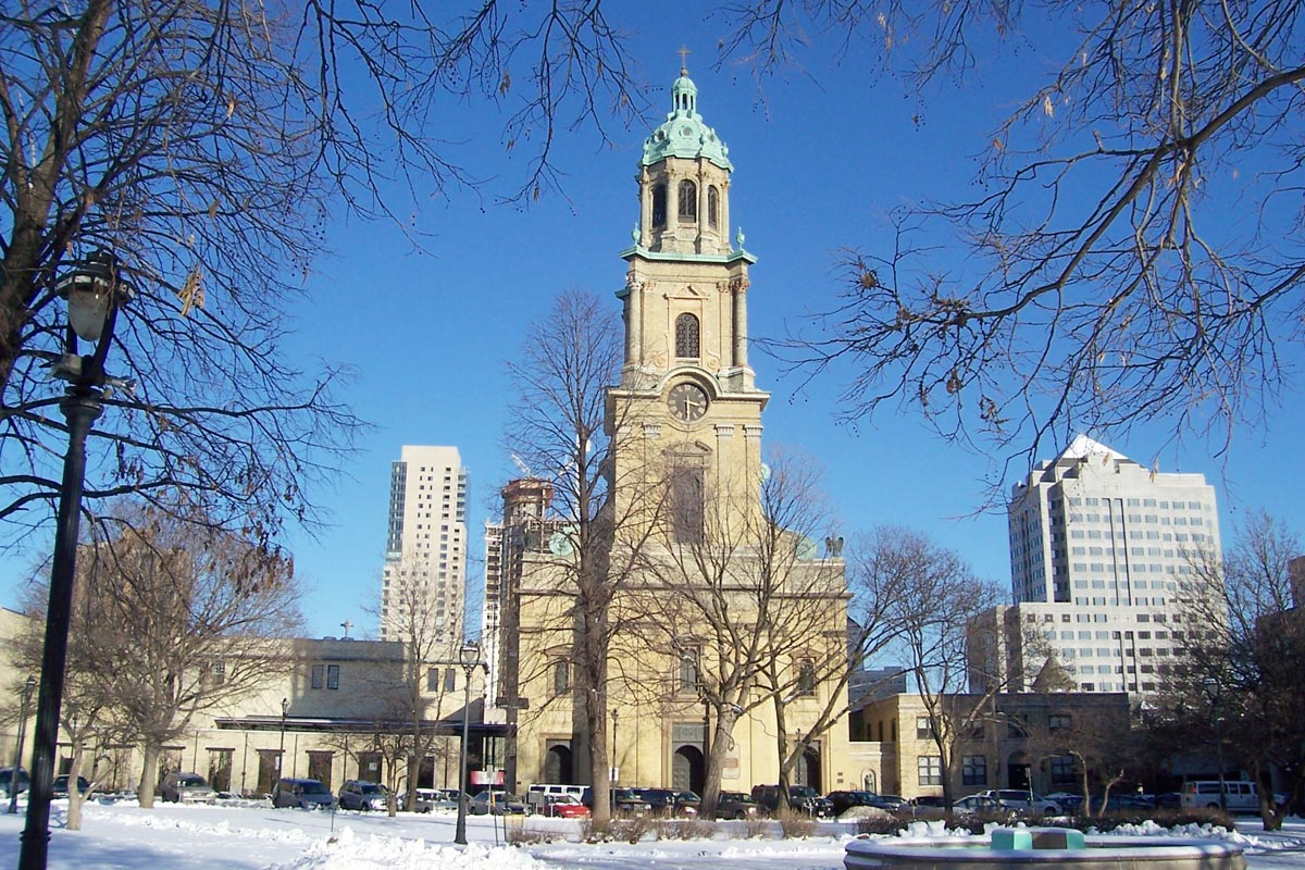 Copyright Â© 2006 Sulfur The historic Cathedral of St. John the Evangelist, as seen from across Cathedral Square Park in Milwaukee, Wisconsin.